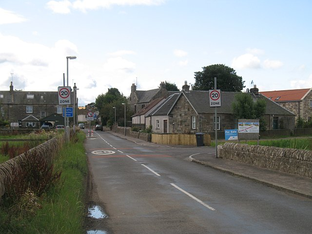 Kettle Road Entering Kingskettle from the north.